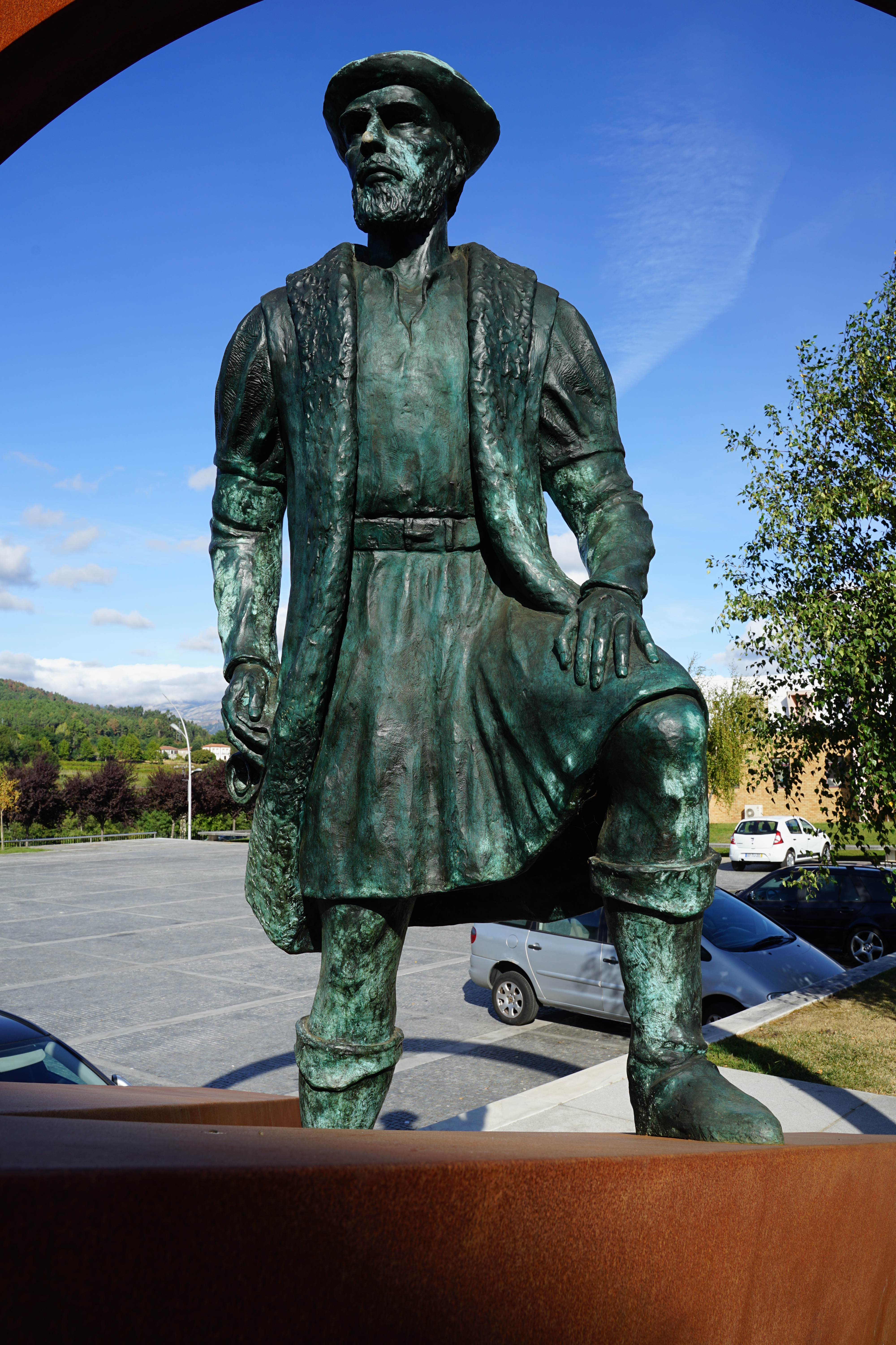 Statue of Ferdinand Magellan in Ponte da Barca, Portugal.